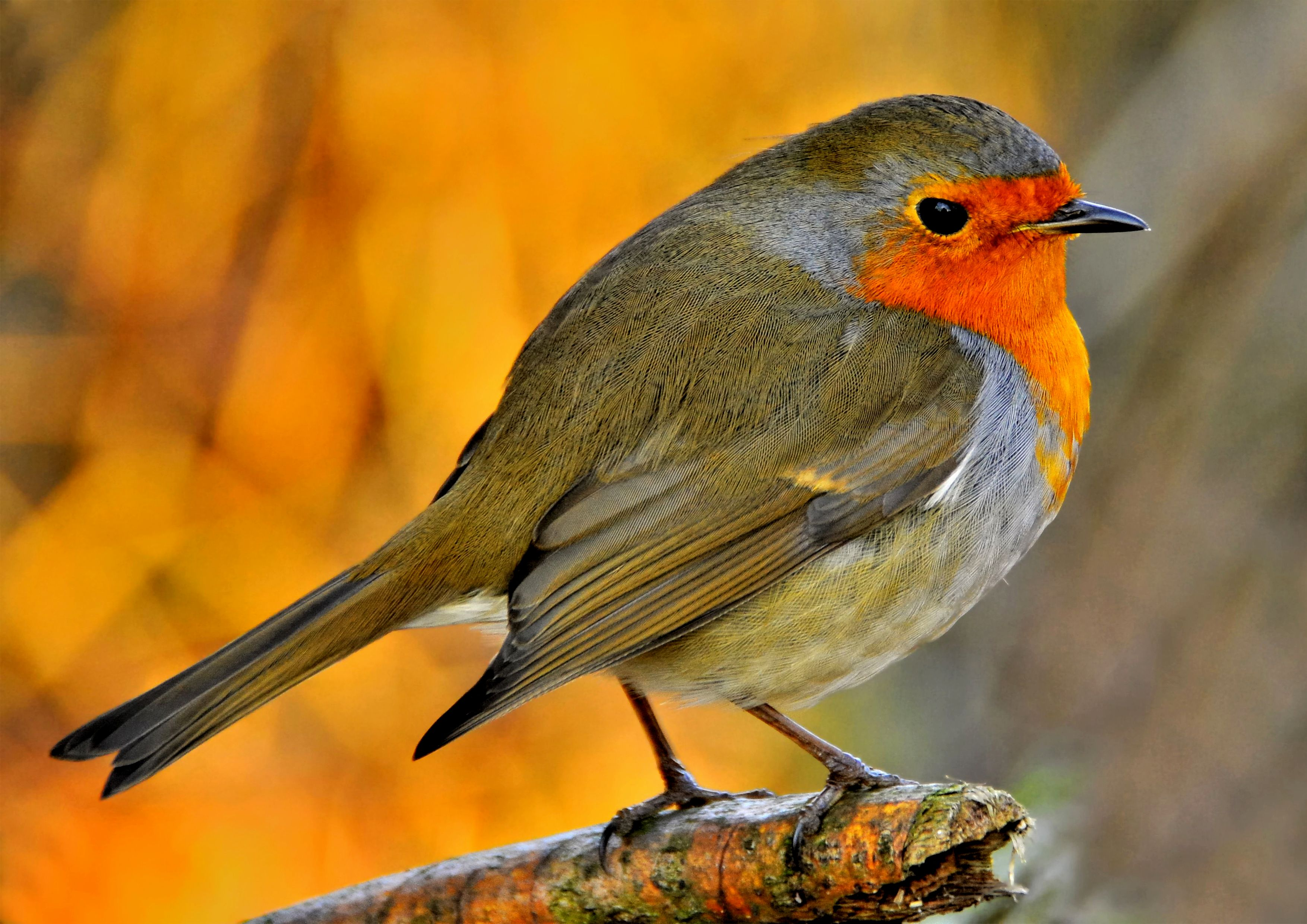 European robin (Erithacus rubecula) from a distance of one meter. Photograph was made at Berkelaue II nature reserve, Vreden, Nordrhein-Westfalen. Taken from a tent near river Berkel.